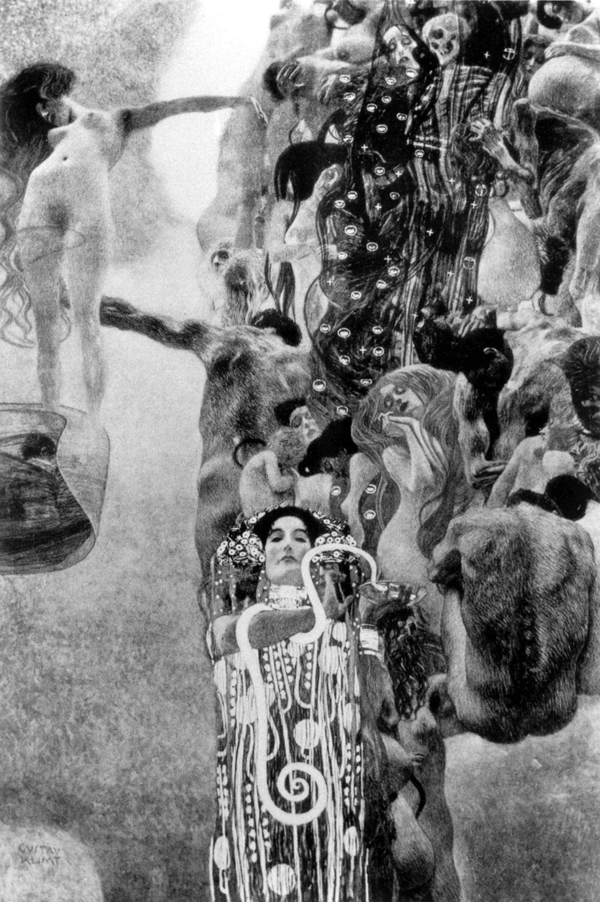 Photograph of the painting Medicine, one of the Klimt University of Vienna faculty paintings